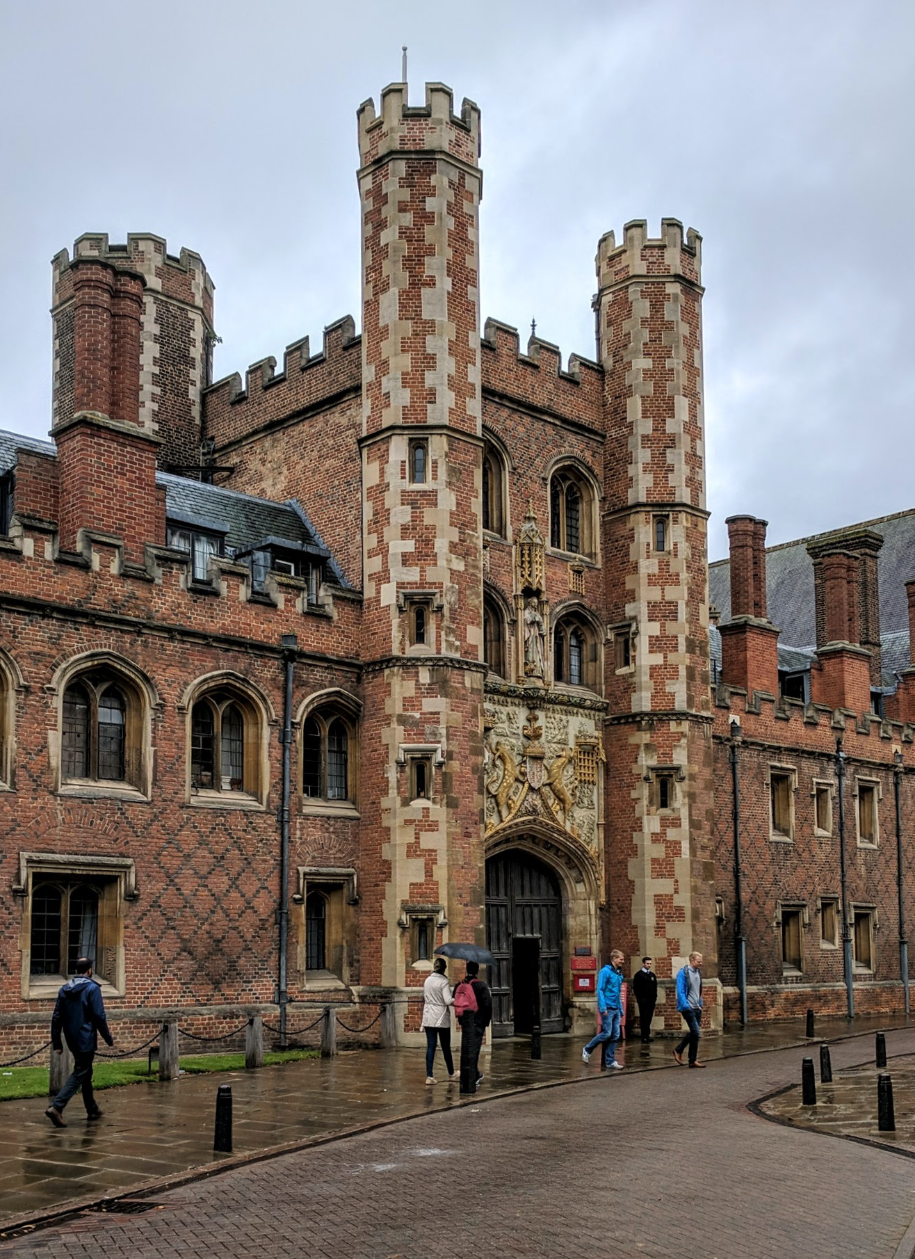 St John's College, Cambridge, Cambridgeshire, UK, main gate.